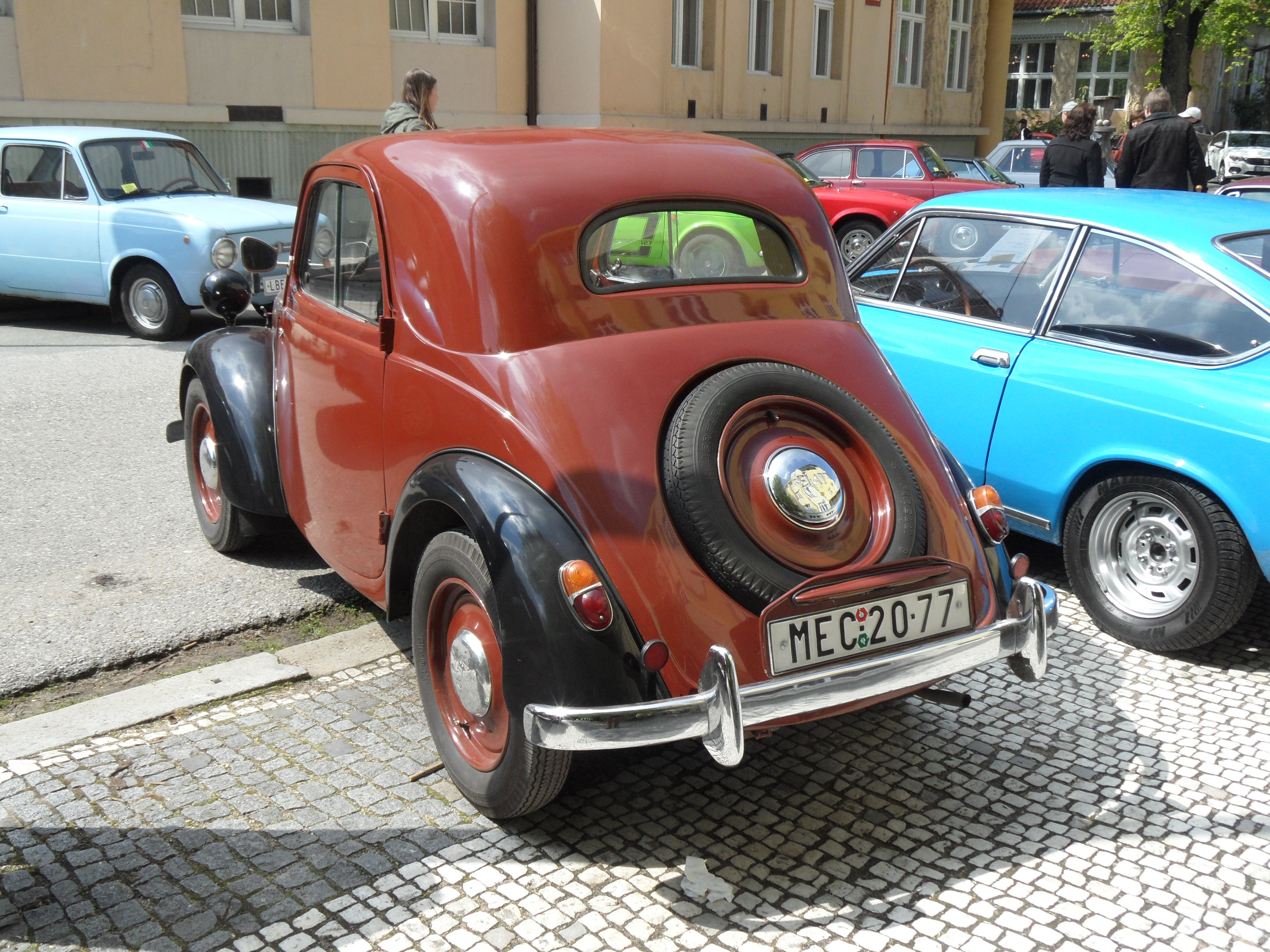 18th Meeting of Italian Car in Poděbrady; Nymburk District, the Czech Republic.Fiat 500 "Topolino".